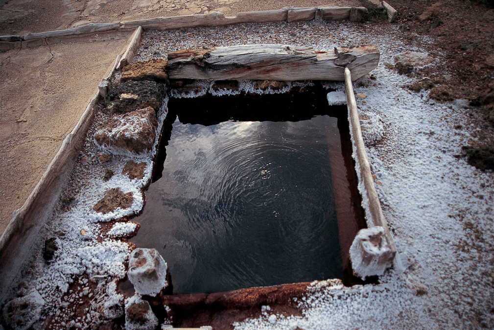 Nature gives us the hypersaline water (brine). View of a spring. Gas bubbles tell us the underground activity of the diapir.